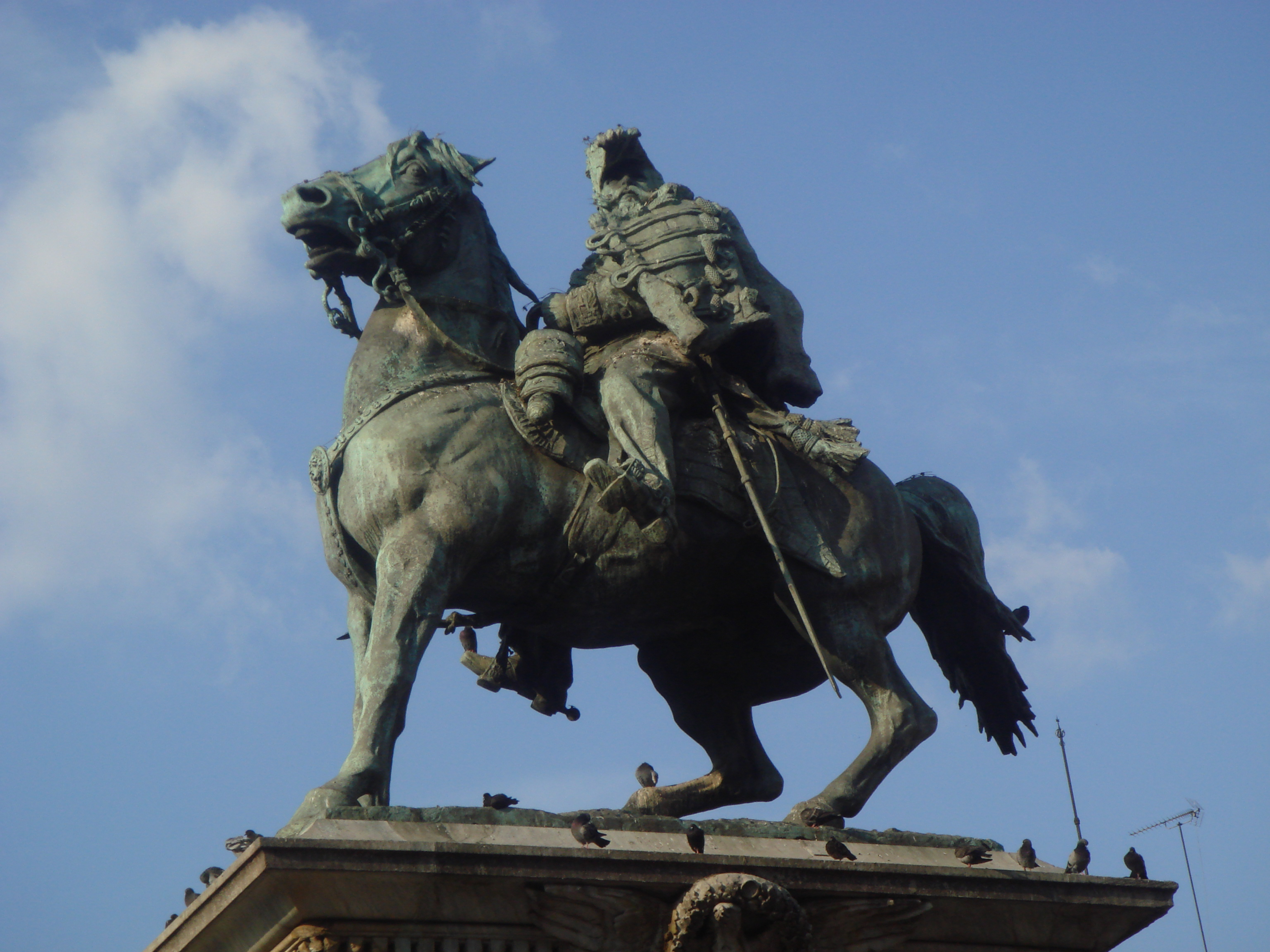 The equestrian statue topping the monument to king Victor Emmanuel II in Duomo Square in Milan, Italy. It was modelled by Ercole Rosa and erected in 1896. Picture by Giovanni Dall'Orto, June 22 2007.